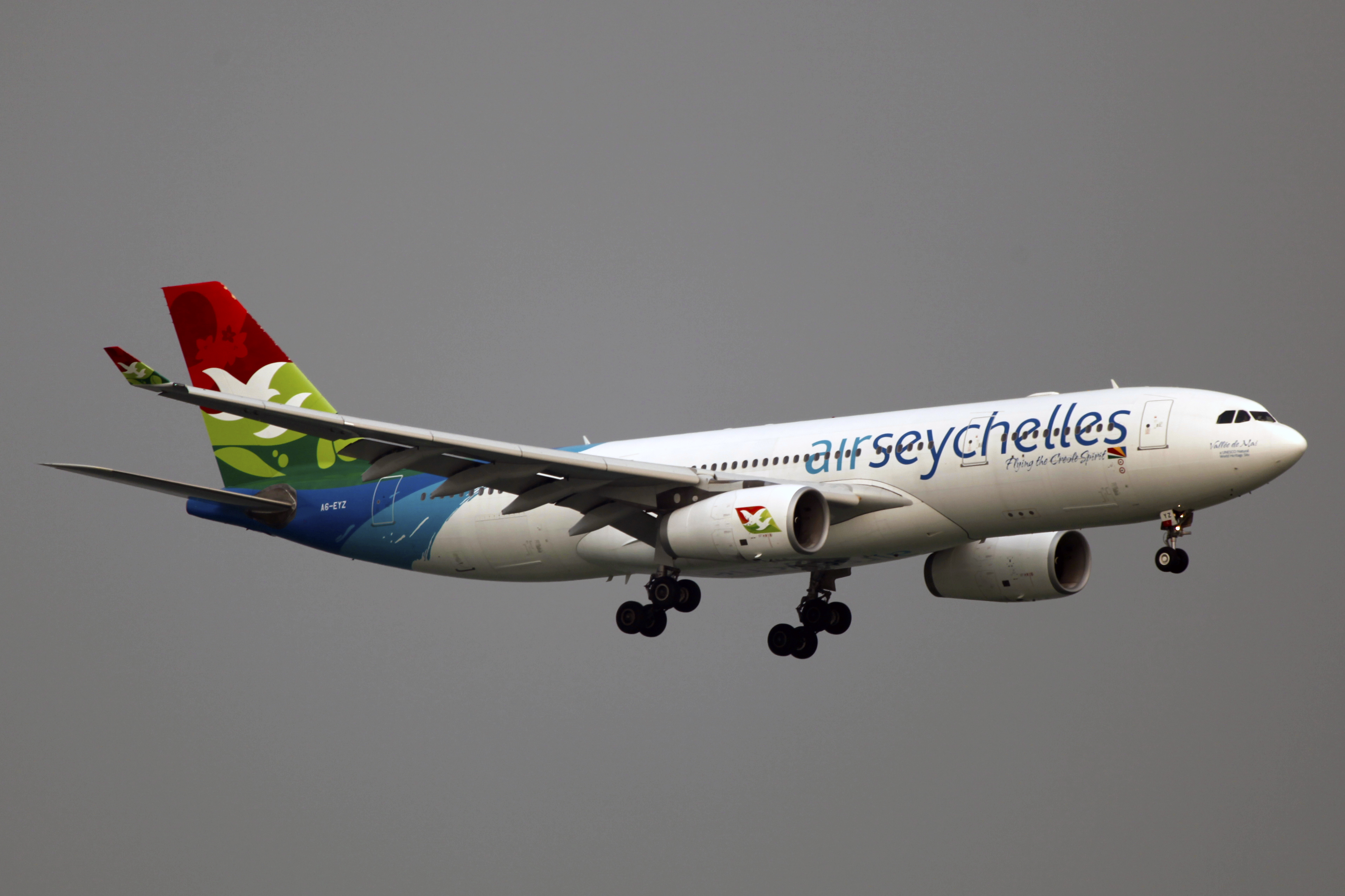 A6-EYZ | Air Seychelles | Airbus A330-243 | Hong Kong Chek Lap Kok International Airport [HKG]